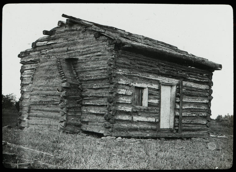 In 1895, Alfred W. Dennett and James Bigham promoted the local Davenport cabin as the original Lincoln "birth cabin" and had it removed to the Sinking Spring Farm.